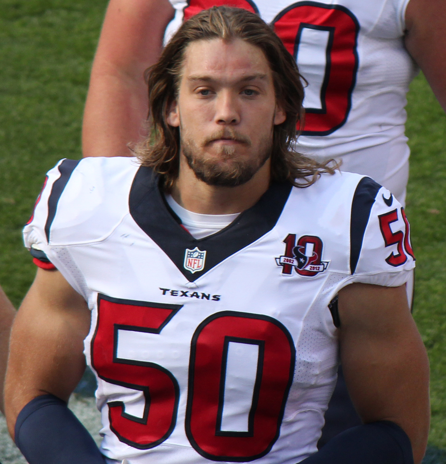 Bryan Braman, a player on the National Football League.